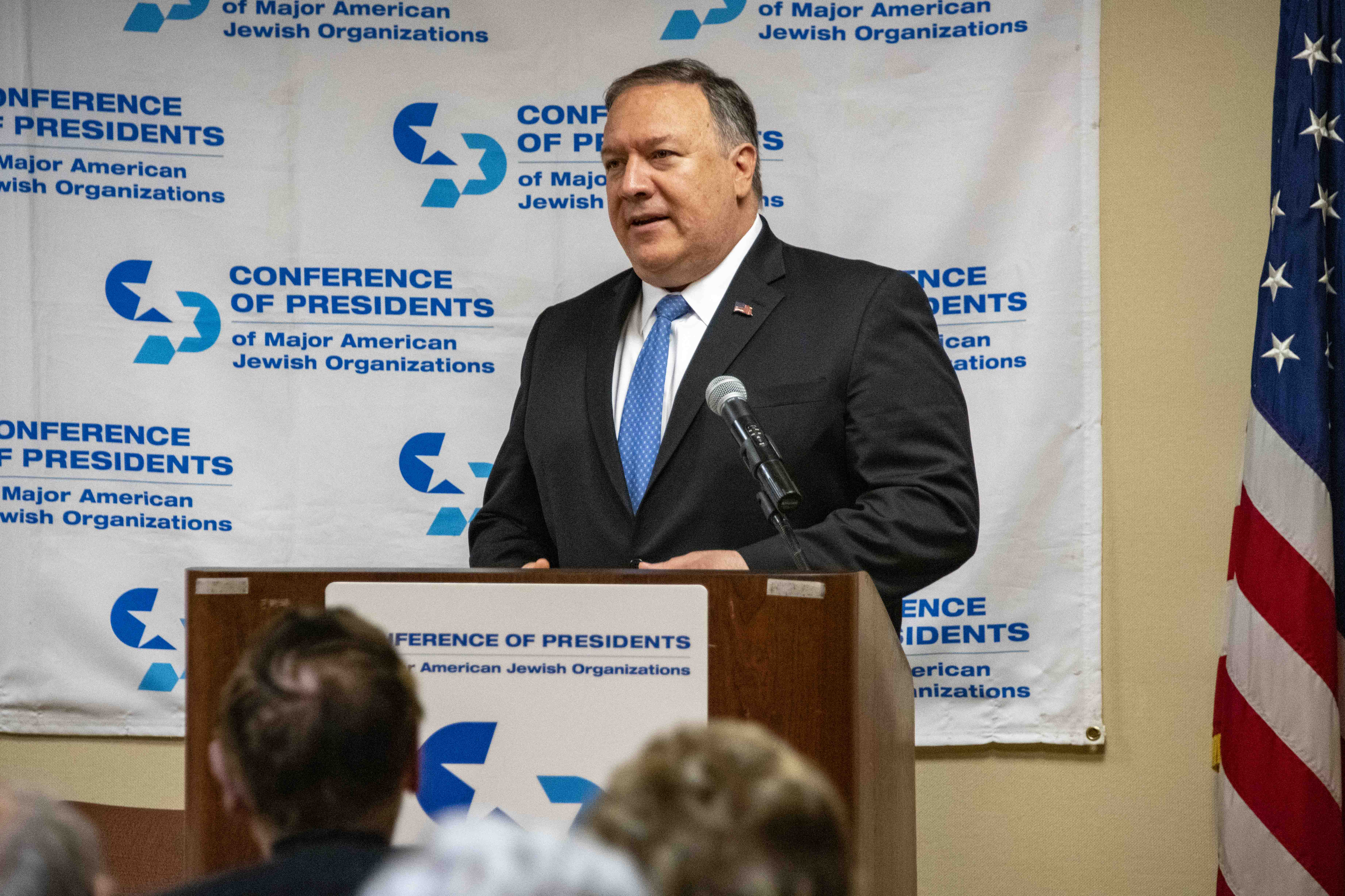 U.S. Secretary of State Michael R. Pompeo deliver remarks at the Conference of Presidents of Major American Jewish Organizations, in New York City, New York on May 28, 2019. [State Department photo by Ron Przysucha/ Public Domain]